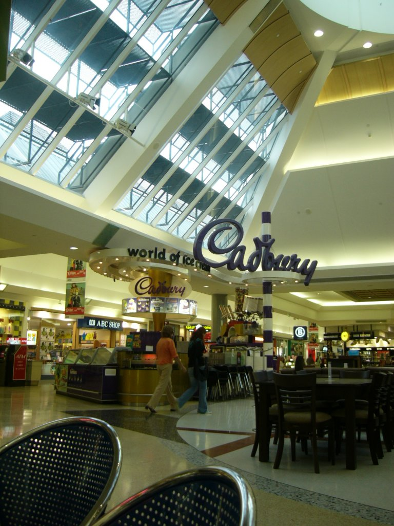 Cadburyglass